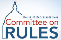 Logo of the United States House Committee on Rules